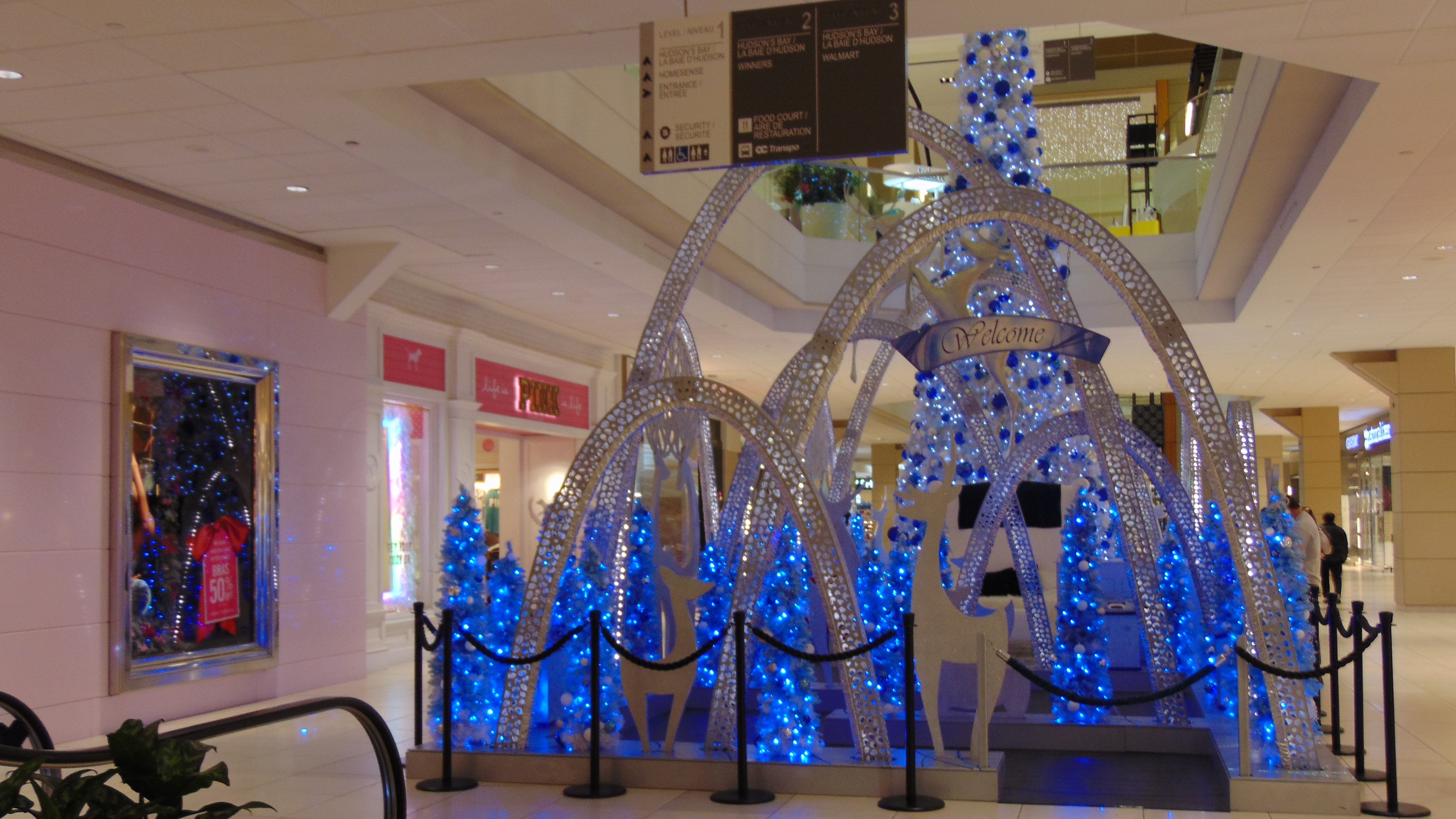 Santa Claus' blue throne at the Bayshore Shopping Centre, albeit Santa Claus is absent. Note: the Victoria's Secret boutique (seen in part with the leftmost window announcing bras on sale) and its sister boutique Pink (to the right of this window), the first in Ottawa, offer a colour contrast.